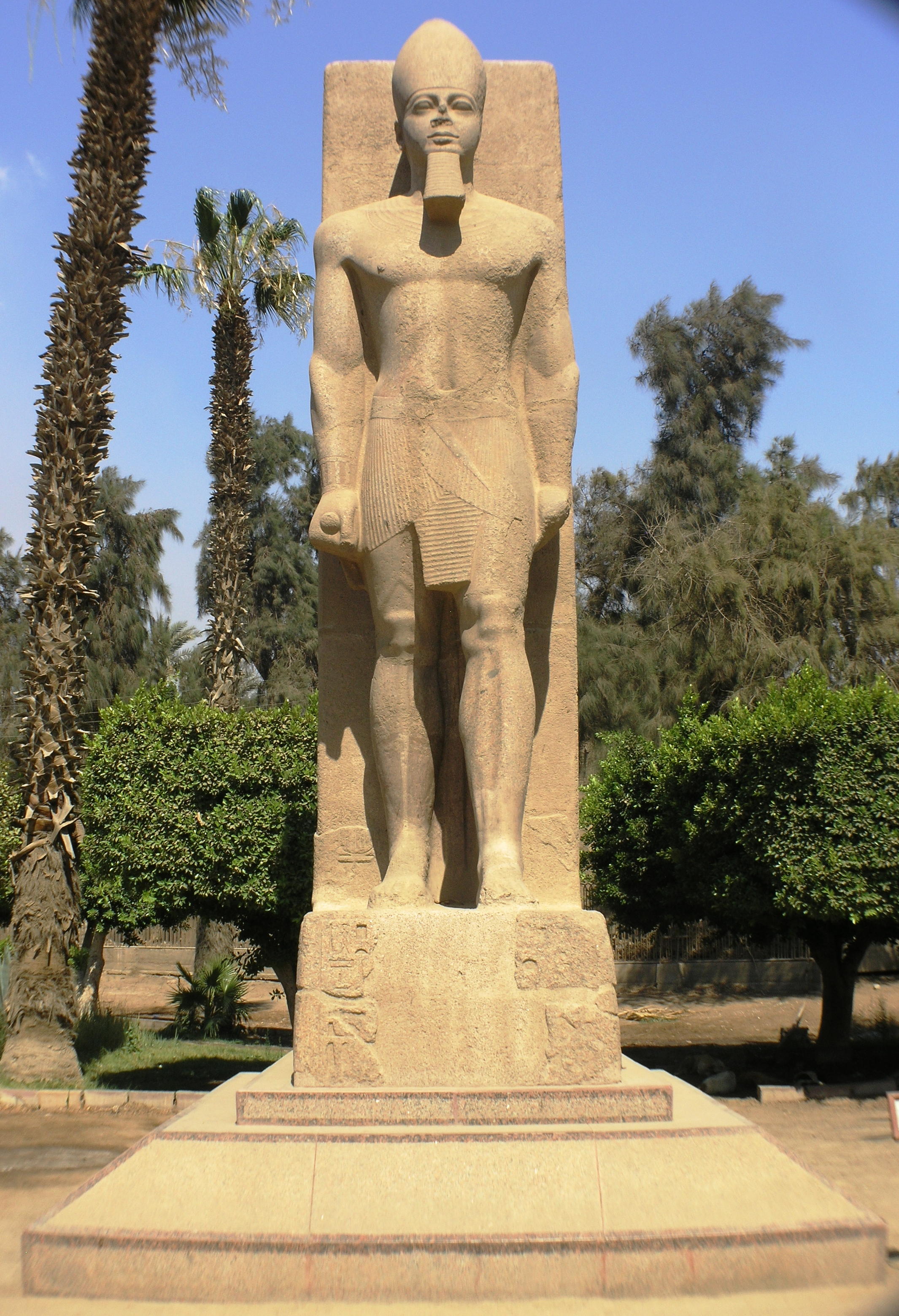 Memphis - Museum - Large statue in back courtyard